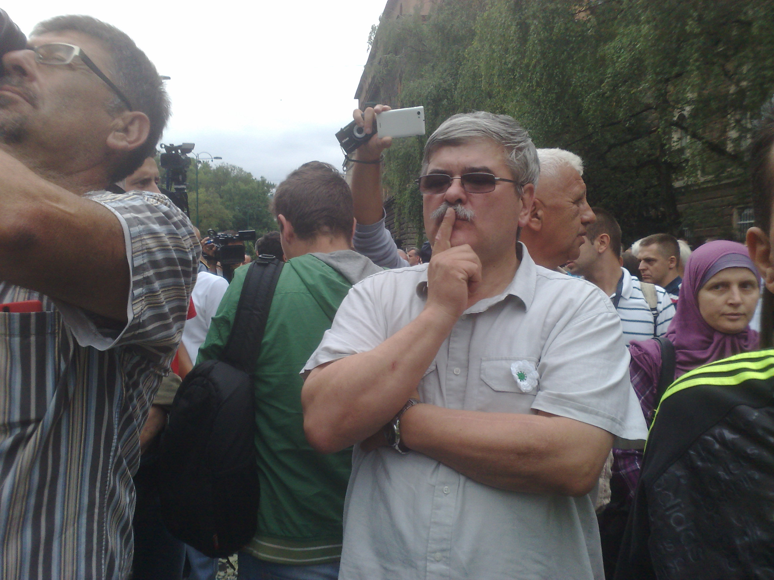 Sarajevans in funeral of 136 Srebrenica genocide victims July 2015. Amor Mašović